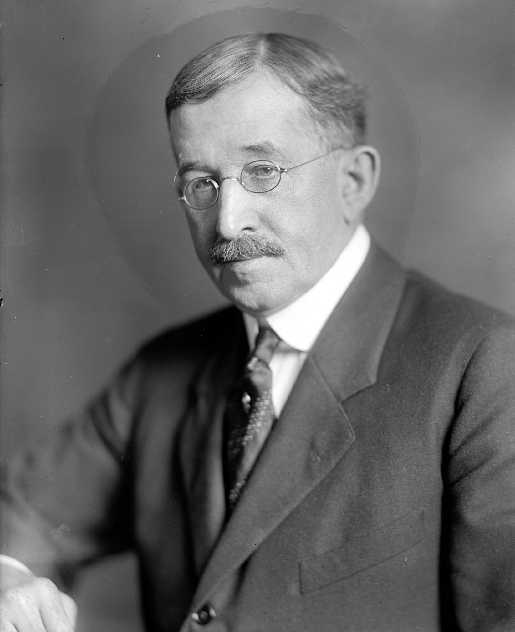 Edward Everett Holland, US Representative from Virginia